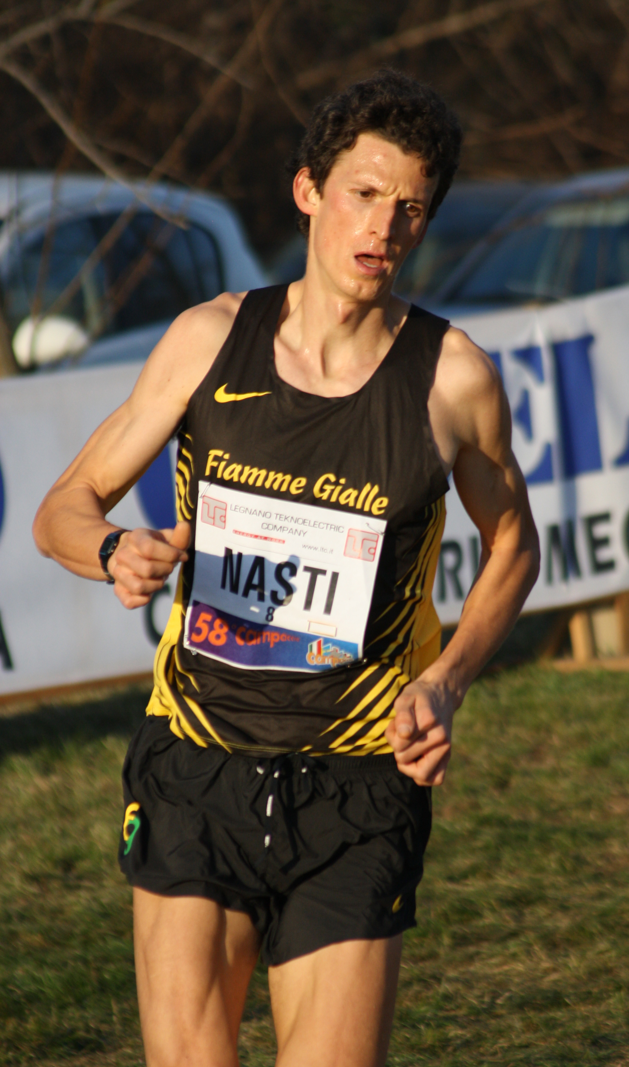 The Italian athlete Patrick Nasti during the 58th edition on the Campaccio.